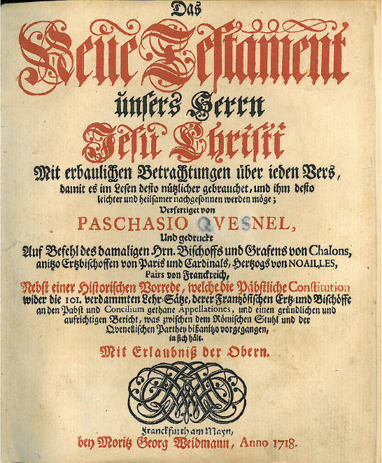 Title page of Das Neue Testament unsers Herrn Jesu Christi published by Moritz Georg Weidmann (1686 - 1743) in 1718.